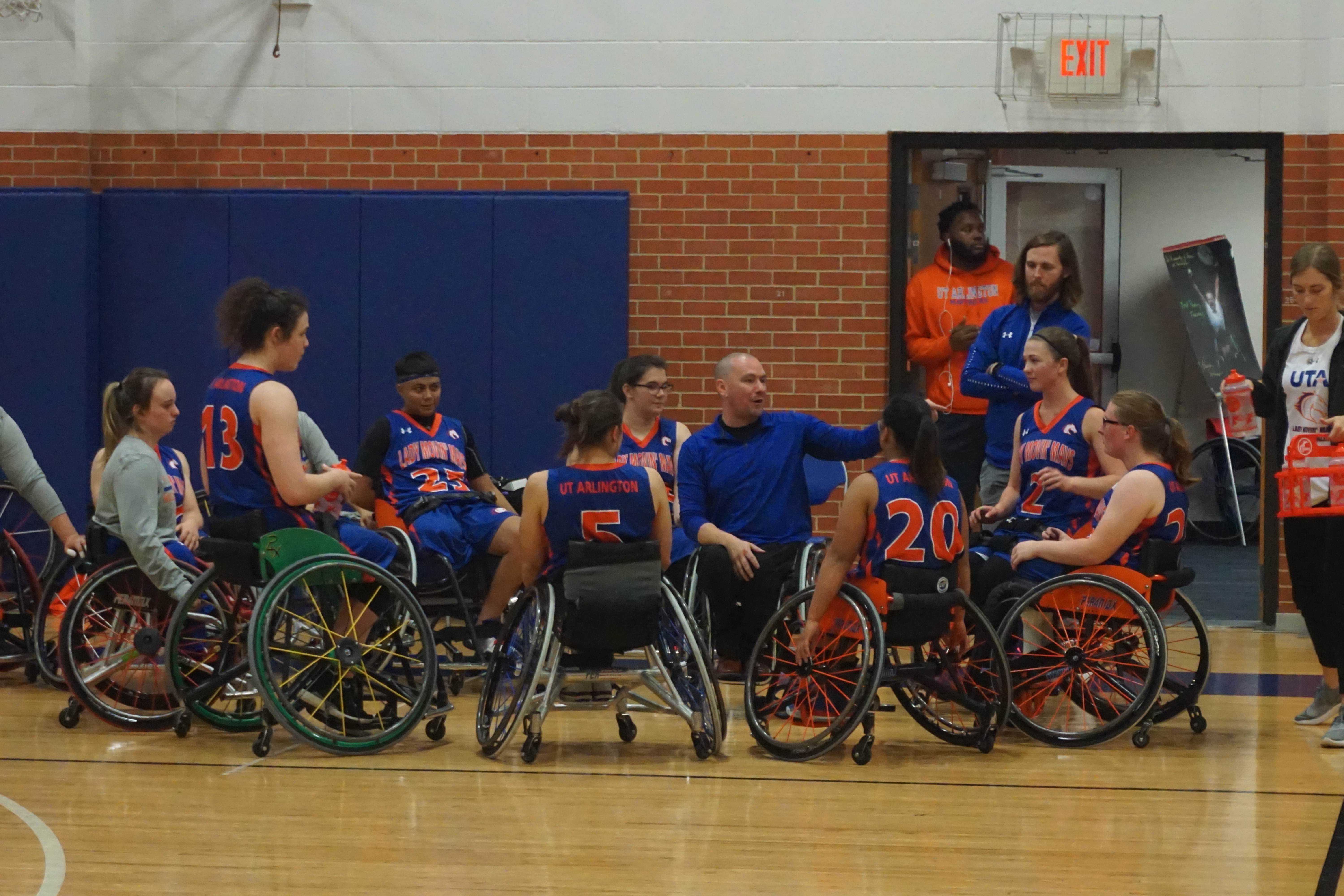 UT Arlington takes a timeout during the Great Britain vs. UT Arlington Mavericks women's wheelchair basketball game at the Physical Education Building on the campus of the University of Texas at Arlington in Arlington, Texas (United States). Great Britain won 54–38.